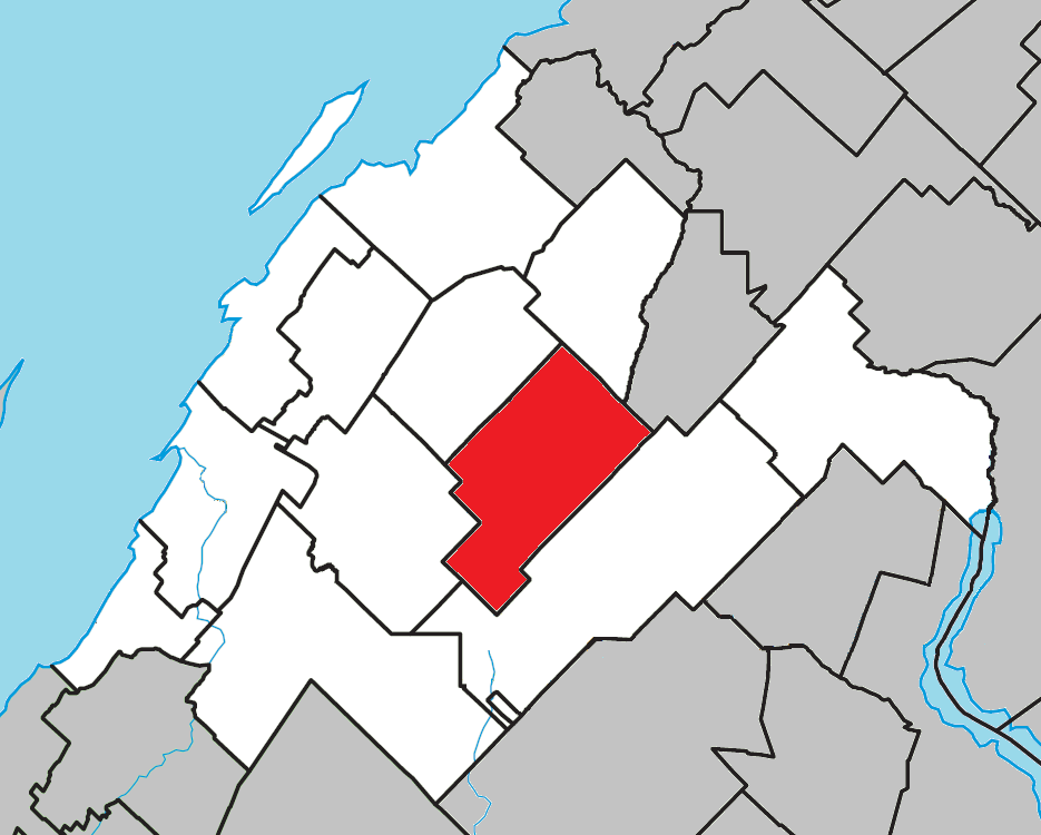 Location of Saint-François-Xavier-de-Viger, Quebec within Rivière-du-Loup Regional County Municipality.